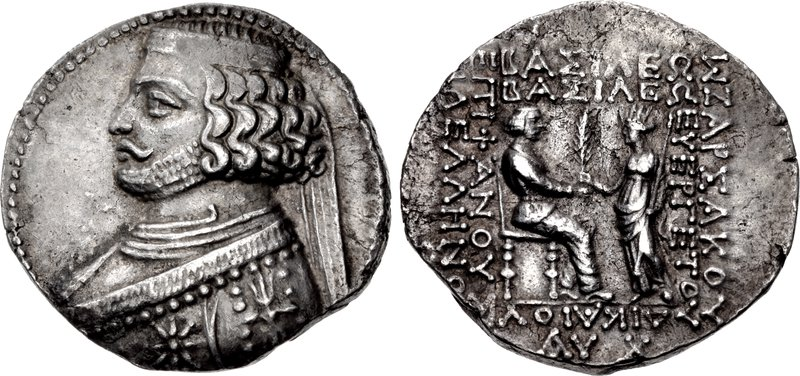 Coin of Orodes II, minted at Seleucia in 48 BC.